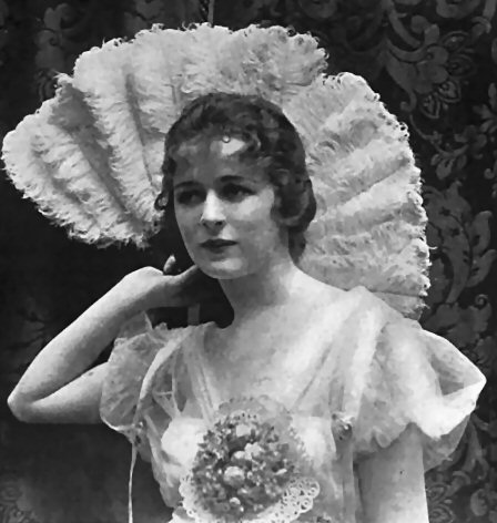 Actress Anita Stewart